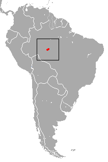 Marca's Marmoset (Mico marcai) range